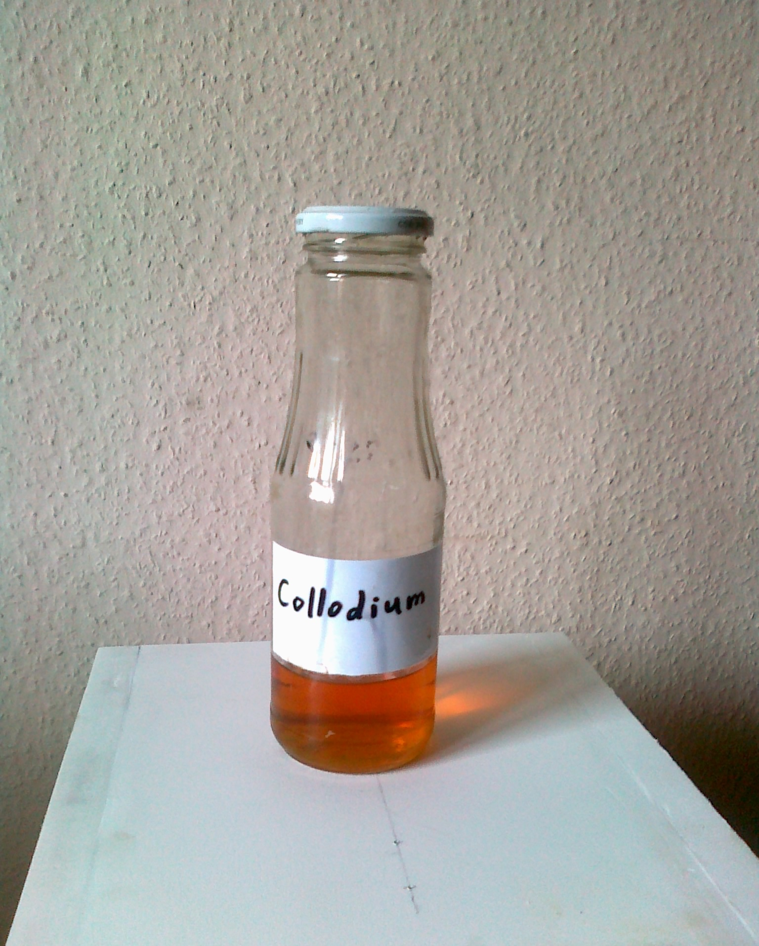 Collodion (photographical) - 2%